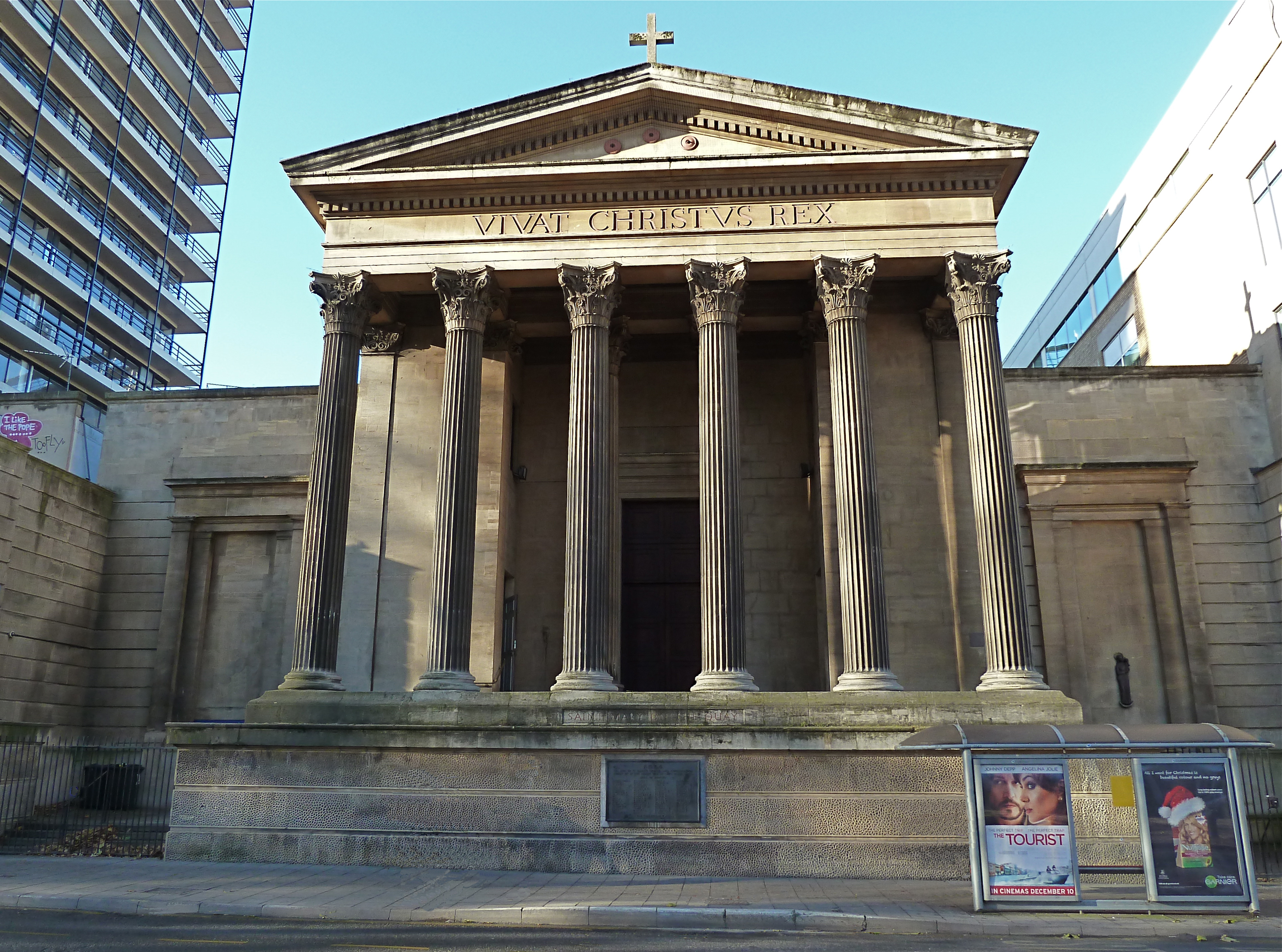 Portico of St Mary-on-the-Quay Catholic church, Bristol